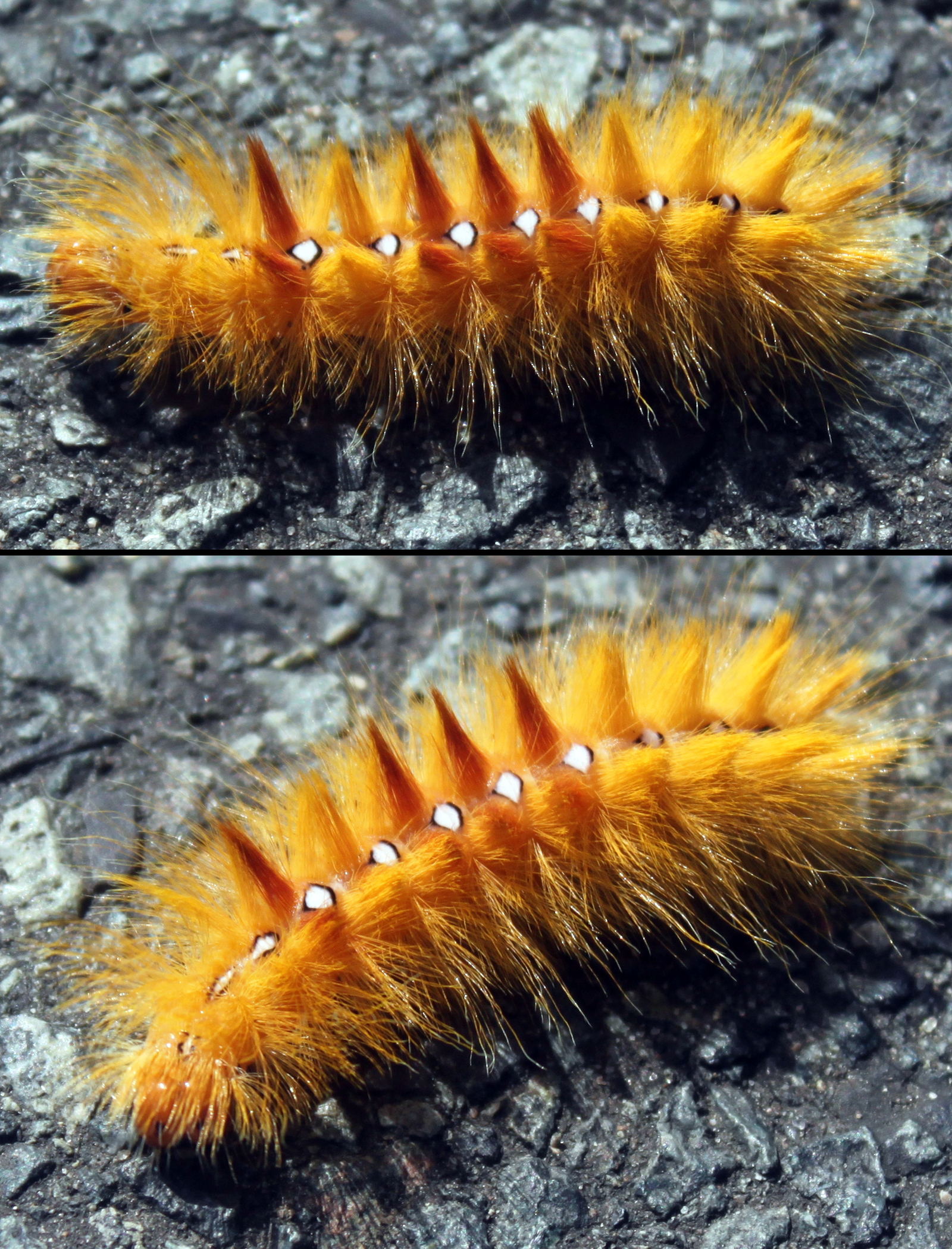 Caterpillar of the sycamore (Acronicta aceris)